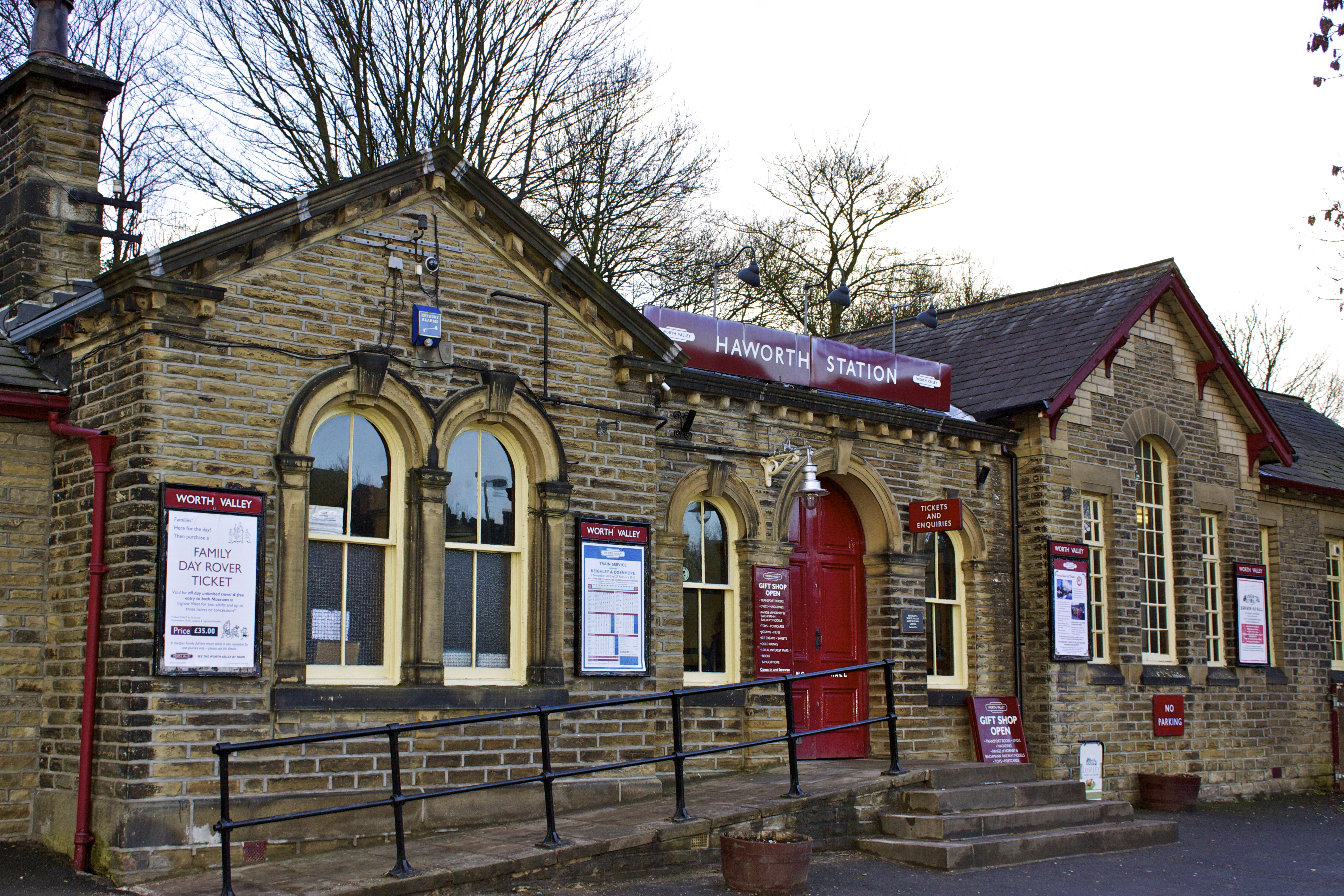 Haworth Station - Main station of the Keighley and Worth Valley Railway